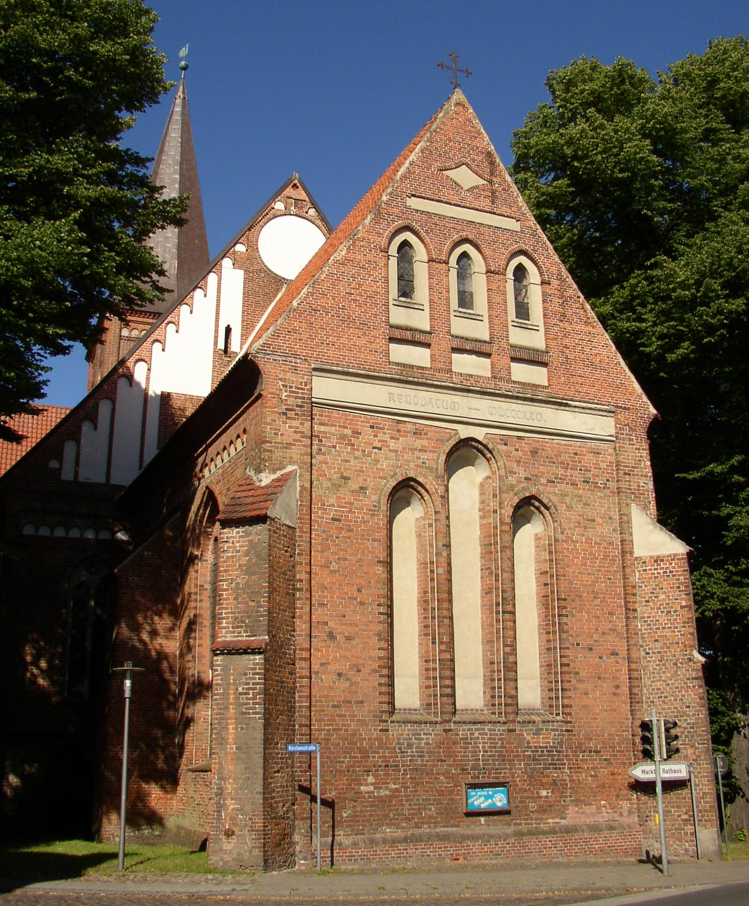 St. Bartholomew's church in Wittenburg in Mecklenburg-Western Pomerania, Germany